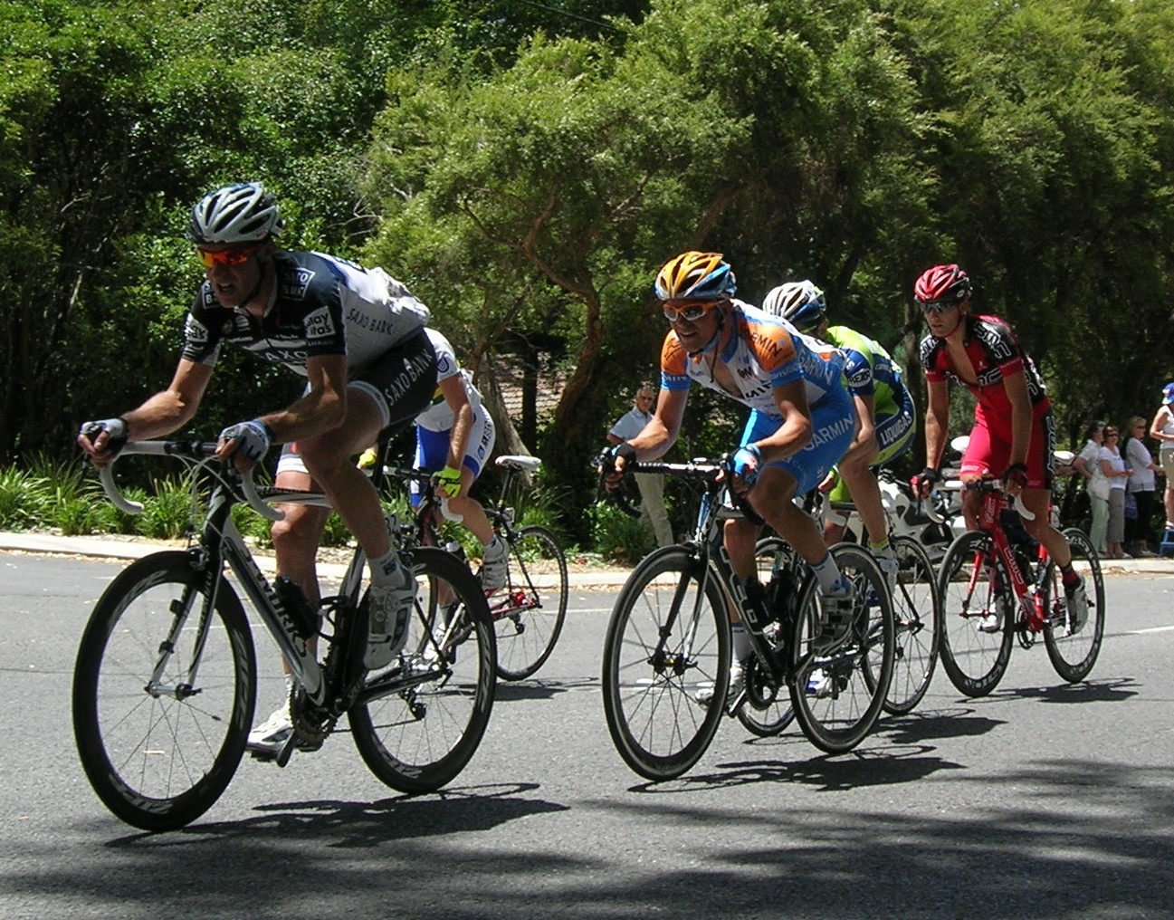 A breakaway passes through Stirling on the first of three laps during the third stage of the 2010 Tour Down Under. From left to right: Jens Voigt of Team Saxo Bank, Simon Clarke of Team UniSA (mostly obscured by Voigt), Jack Bobridge of Garmin-Transitions, Maciej Paterski of Liquigas-Doimo (mostly obscured by Bobridge) and Karsten Kroon of BMC Racing Team.